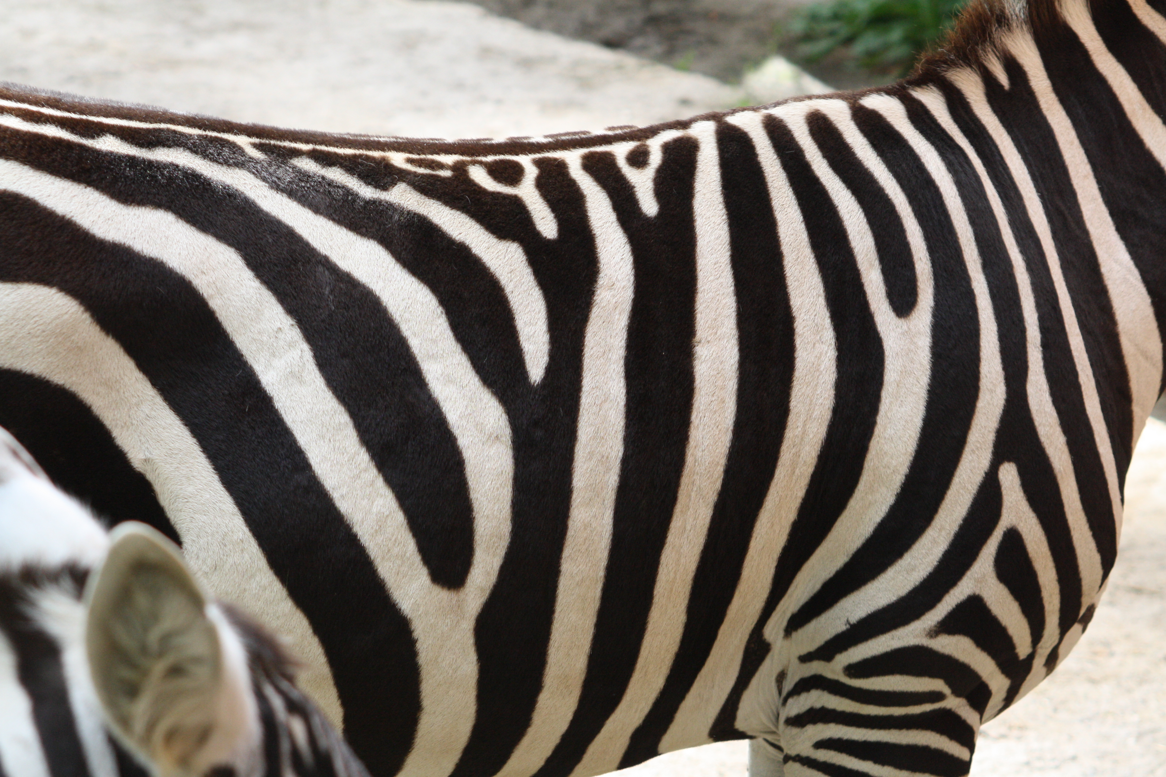 Body of Equus quagga borensis in Liberec ZOO.jpg